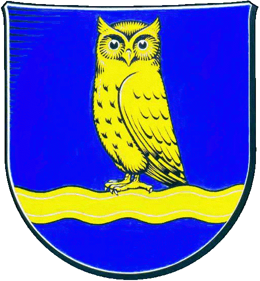 Coat of arms of Tarp Blasonierung: In Blau auf goldenem Wellenbalken eine herschauende goldene Eule in Seitenansicht.